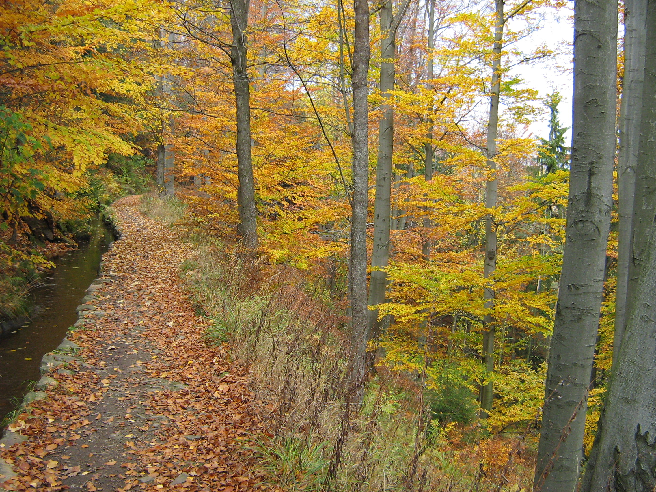 The "Grüne Graben" (german, lit. "green ditch") near Pobershau in Ore Mountains, Saxony, Germany. This 8 kilometers long ditch was built in the late 17th century to supply the Pobershau silver and tin mines with water power.